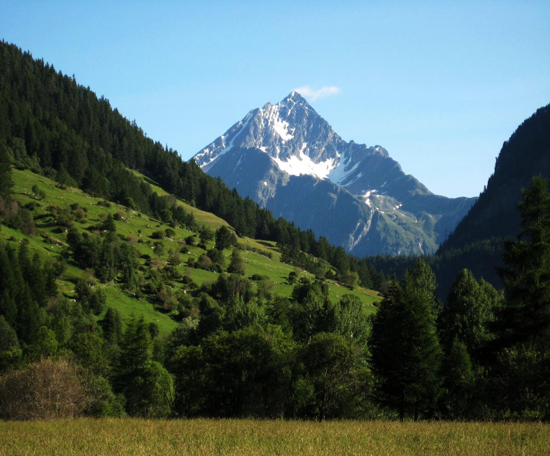 View of Piz Linard (3400m) from Zernez, Graubünden